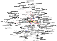 World Wide Web Around Wikipedia - Created by Chris 73 using TouchGraph GoogleBrowser V1.01, which is based on the related function of google (e.g. [1]). DOWNSIZED